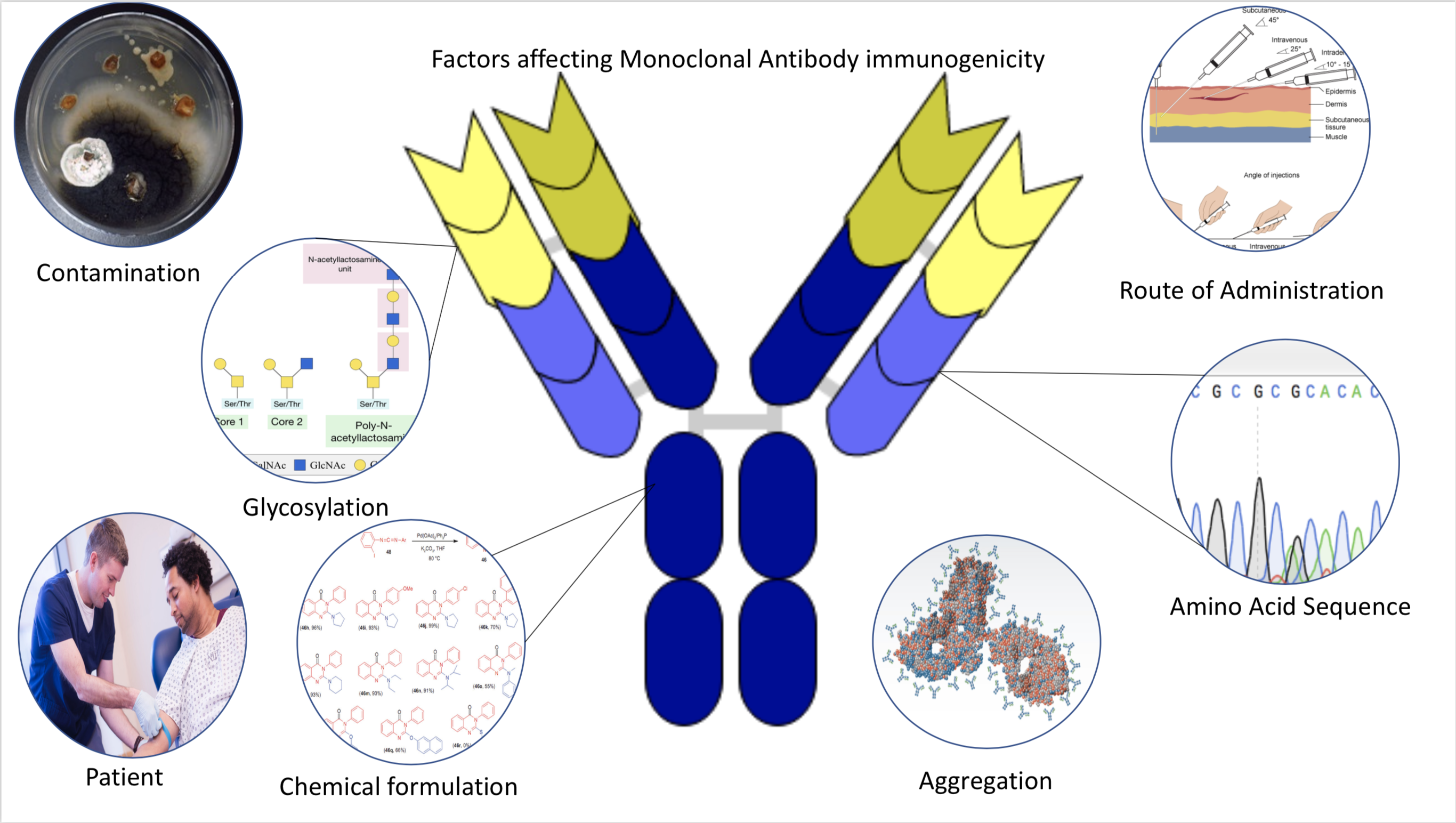 The images were found using The image describes some factors that affect immunogenicity of monoclonal antibodies.